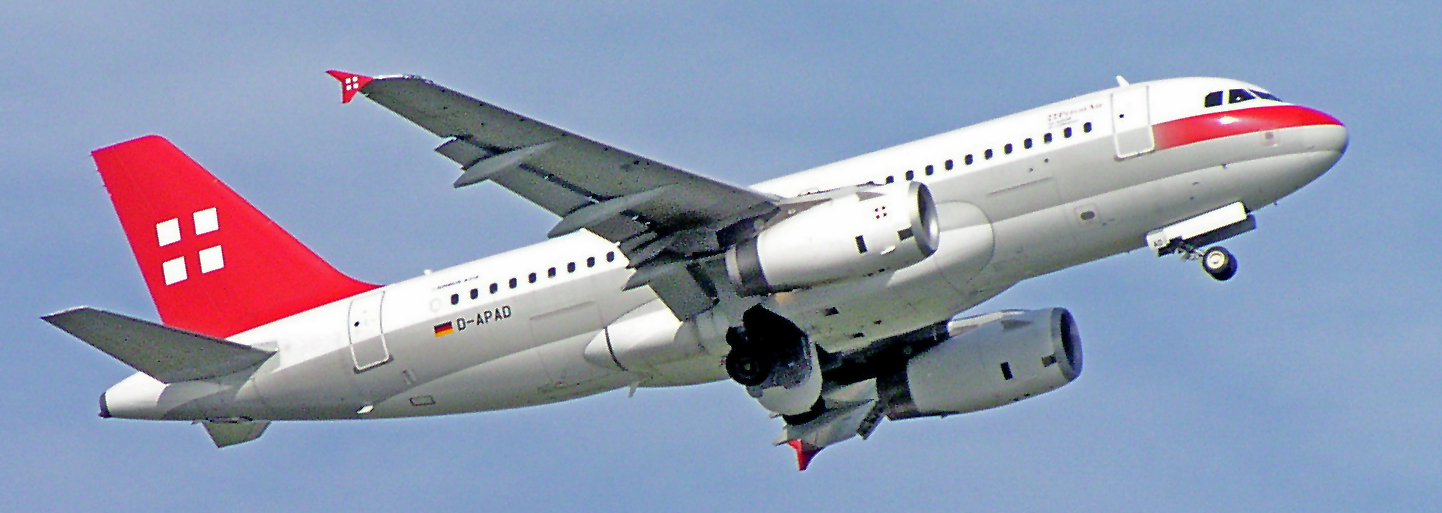 Privatair Airbus A319-100LR D-APAD Description: A Privatair Airbus A319-100LR departing at Düsseldorf Airport, 2004-09-08. Source: Selbst fotografiert Photographer: Arcturus Licence: GFDL-self + cc-by-sa-2.0-de